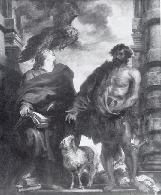 Saints John the Baptist and John the Evangelist